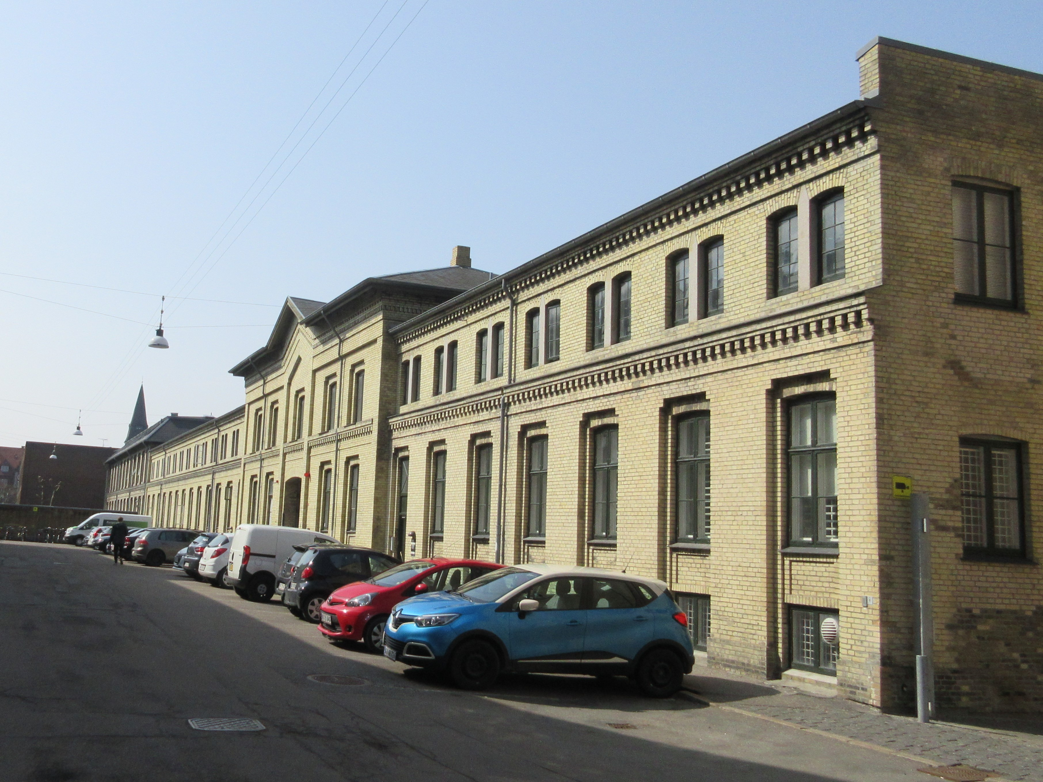 Holger Petersens Tekstilfabrik